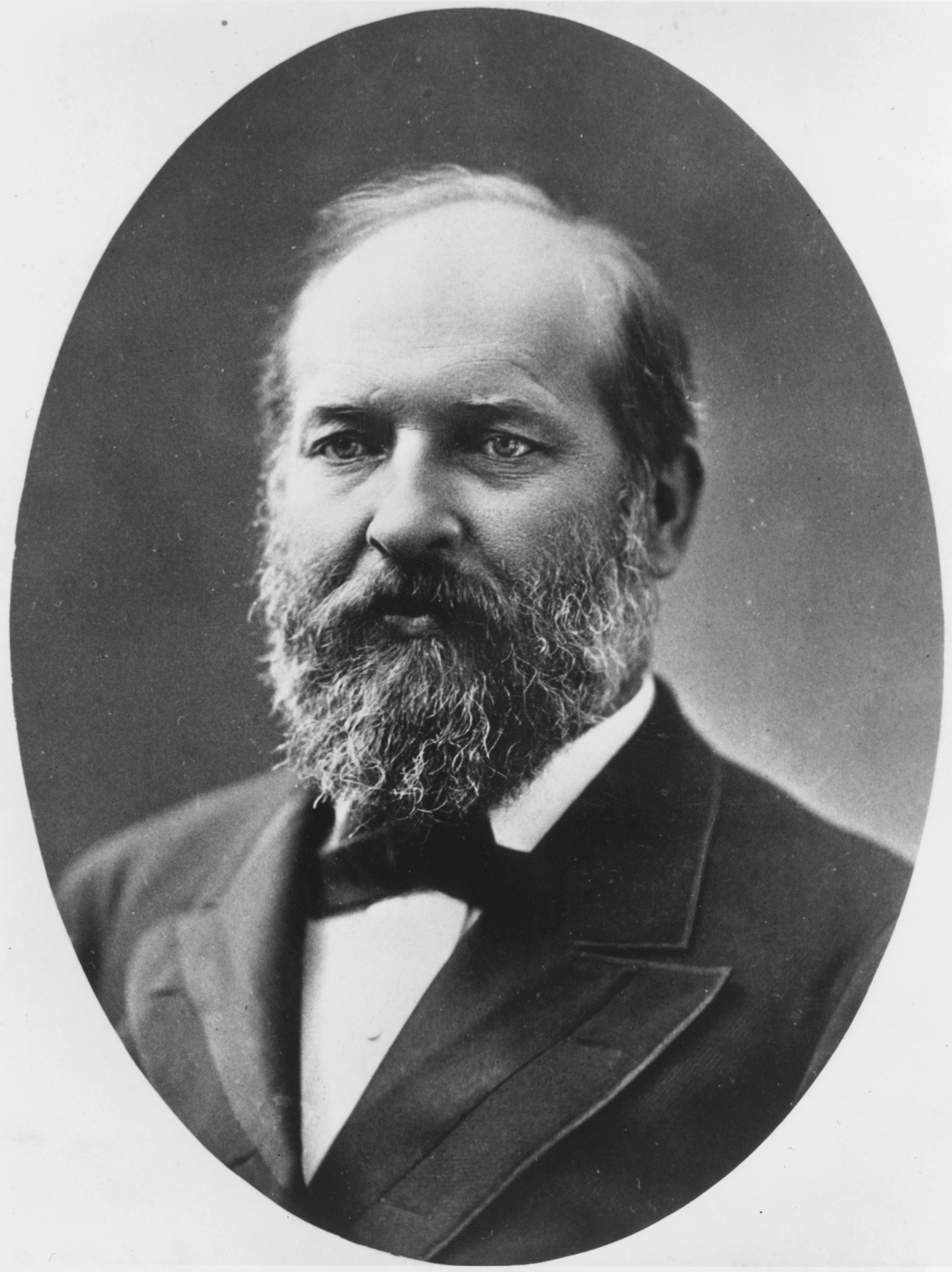 General notes: Use Presidents List Number 9 when ordering a reproduction or requesting information about this image.